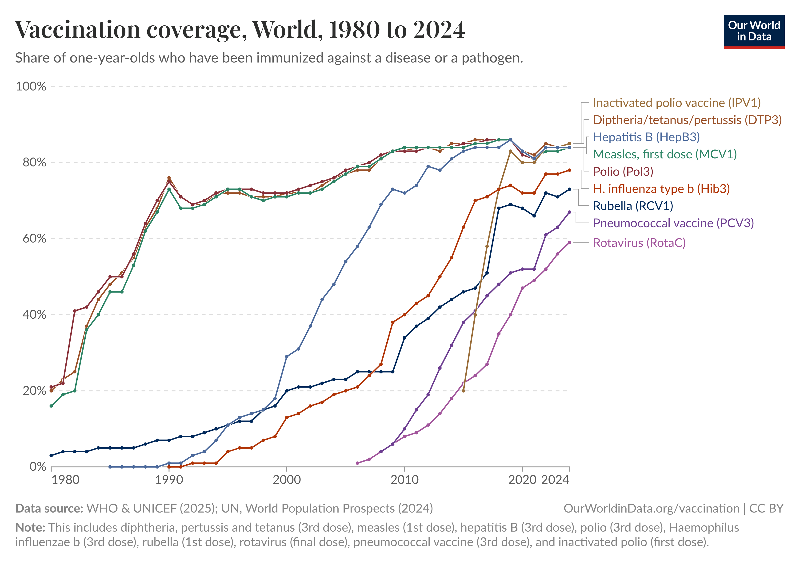 Share of one-year-olds who have been immunized against a disease or a pathogen